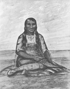 Owl Woman